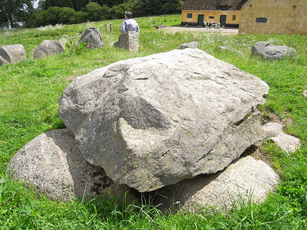 Site Name: Baronens Høj Runddysse Alternative Name: Nørreskov Country: Denmark County: Sønderborg (incl. Als) Type: Burial Chamber (Dolmen) Nearest Town: Sønderborg Nearest Village: Egen Latitude: 55.026048N Longitude: 9.877918E